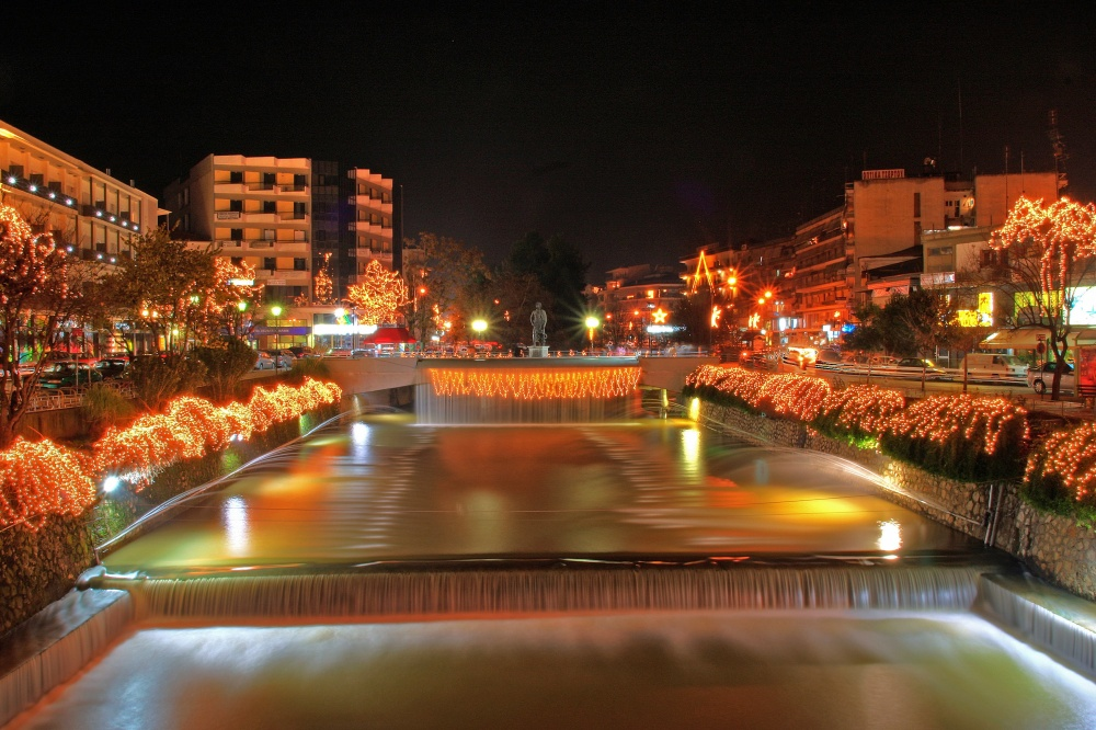 River Litheos within the city of Trikala, Greece.